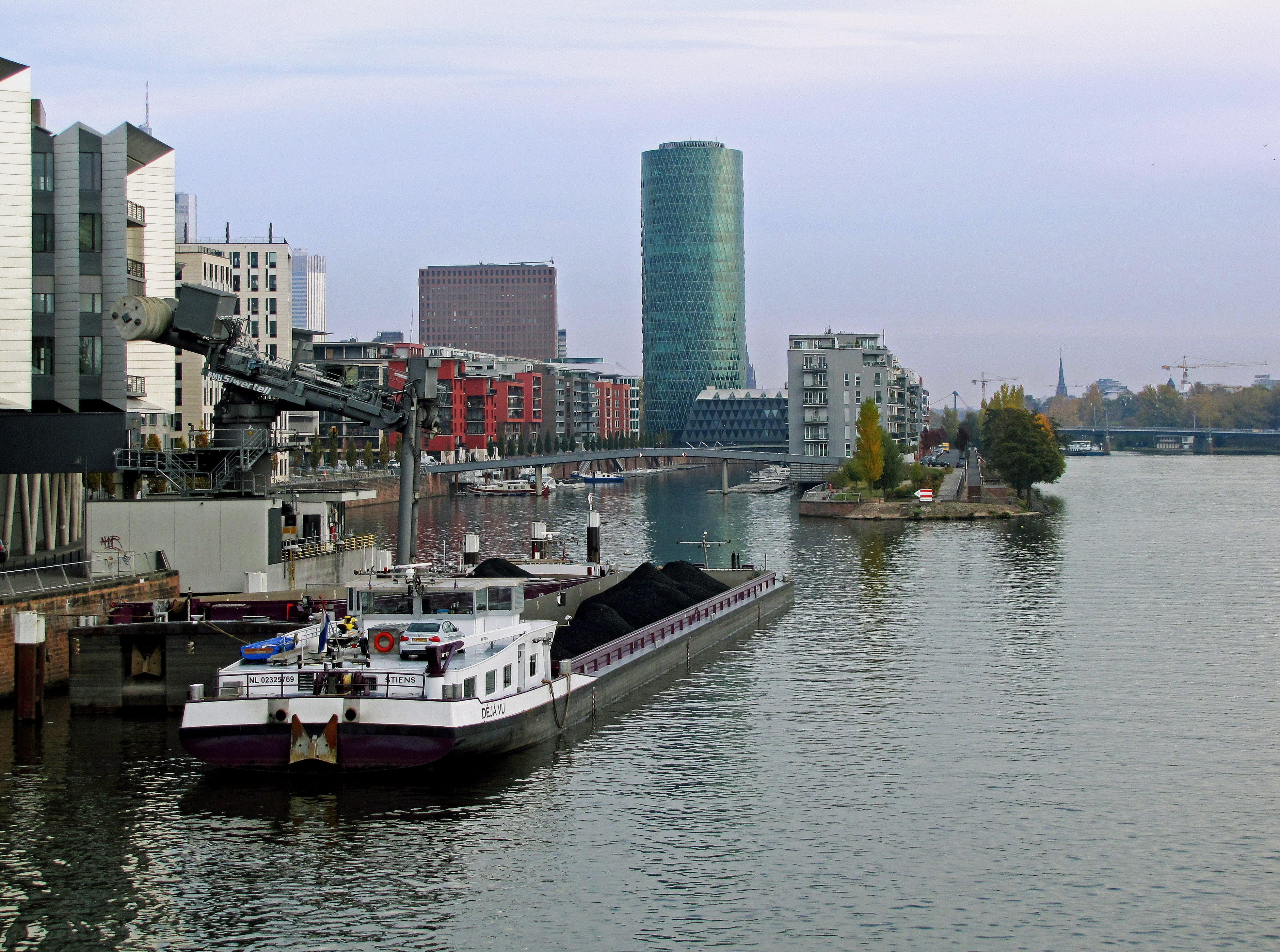 "Westhafen" in Frankfurt am Main, Germany.